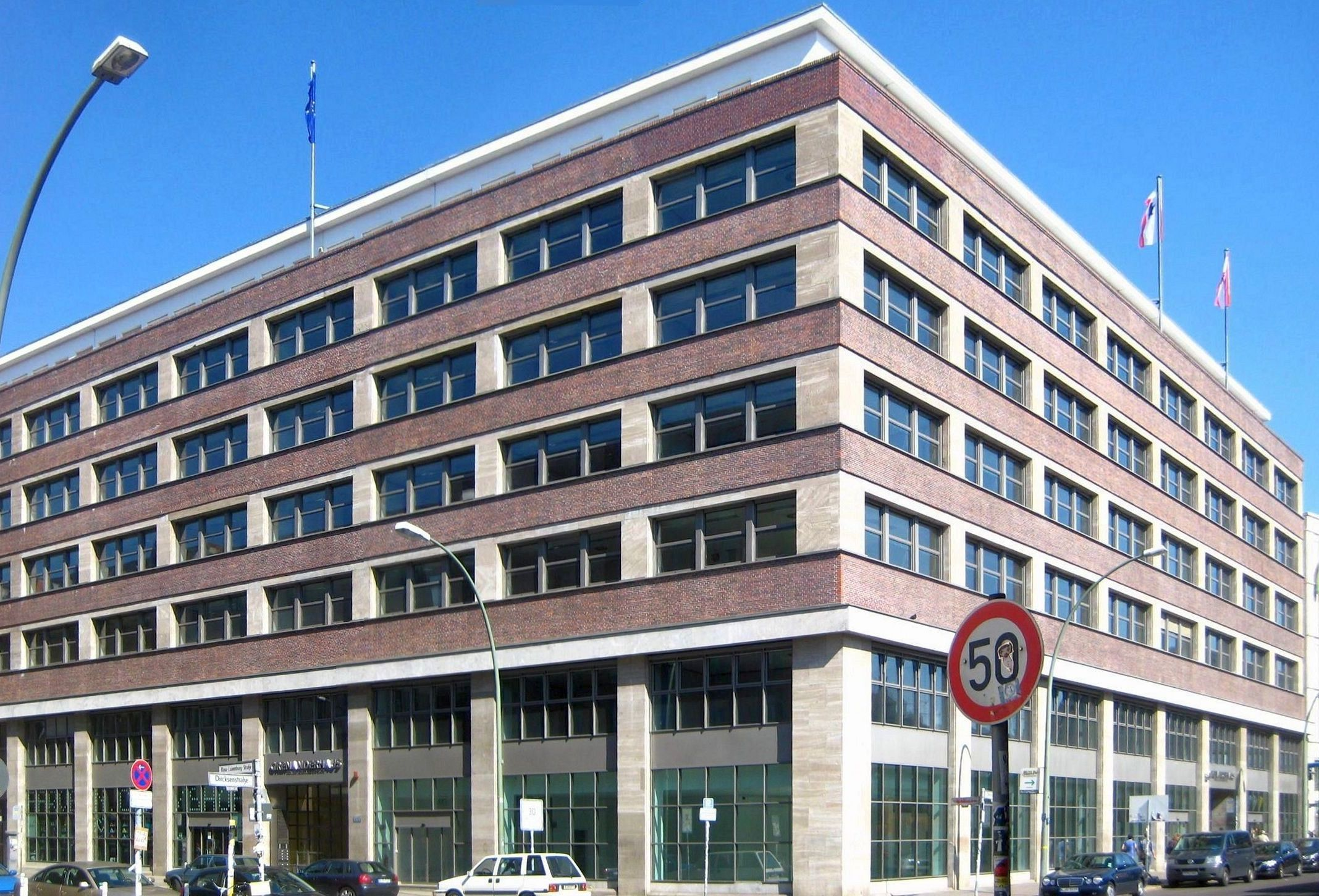 The Grenanderhaus at Rosa-Luxemburg-Straße No. 2, corner of Dircksenstraße (right), in Berlin-Mitte. The office building was constructed from 1928 to 1930 to a design by Alfred Grenander as administration building for the Berlin Transport Authority. It has been designated as a historic landmark.